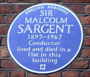 Blue Plaque to Malcolm Sargent, Kensington, UK